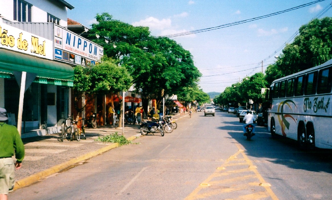 Main street of Bonito, Mato Grosso do Sul, Brazil